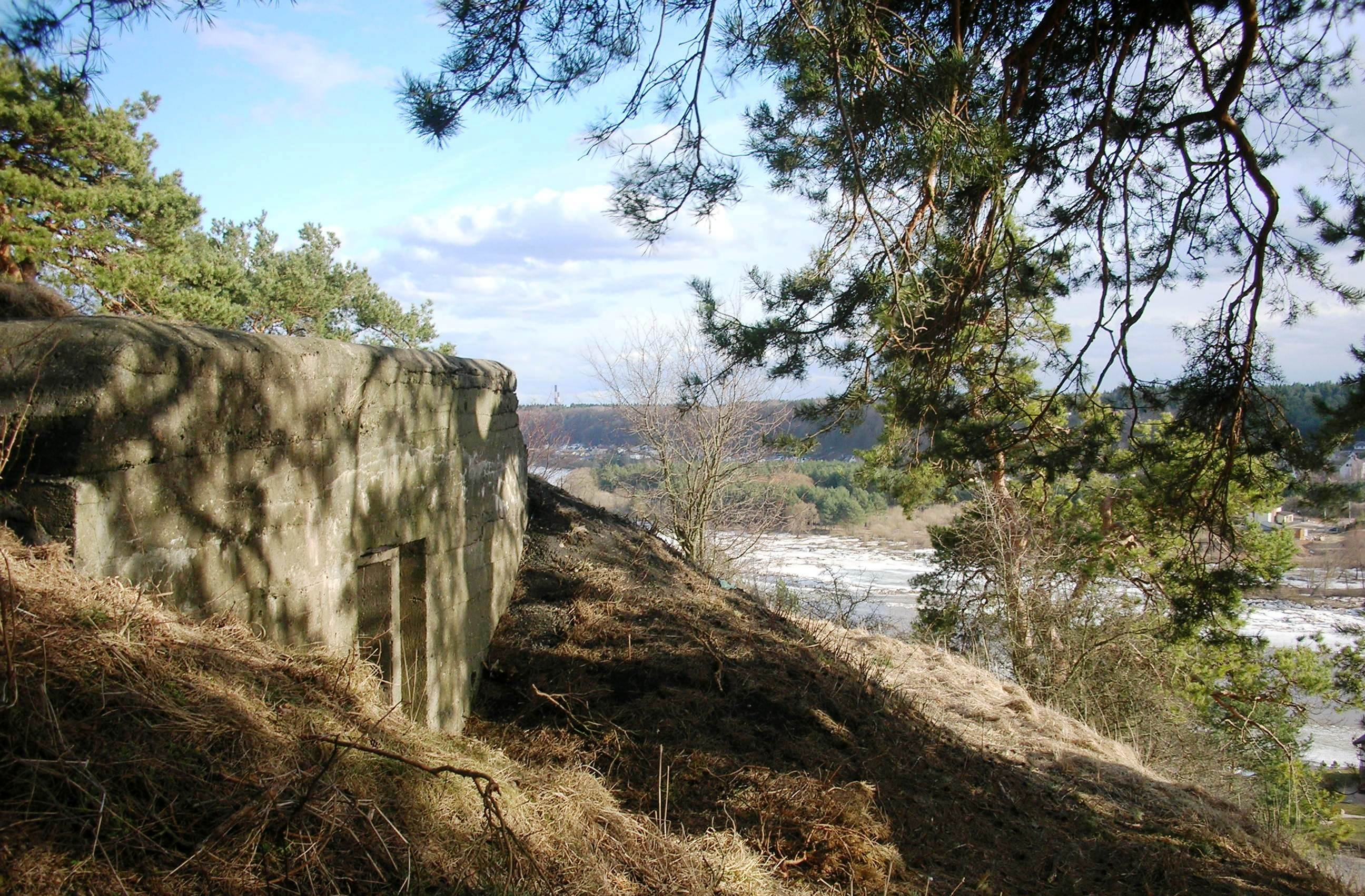 Lentainiai Hillfort. WWI Bunker. Kaunas District